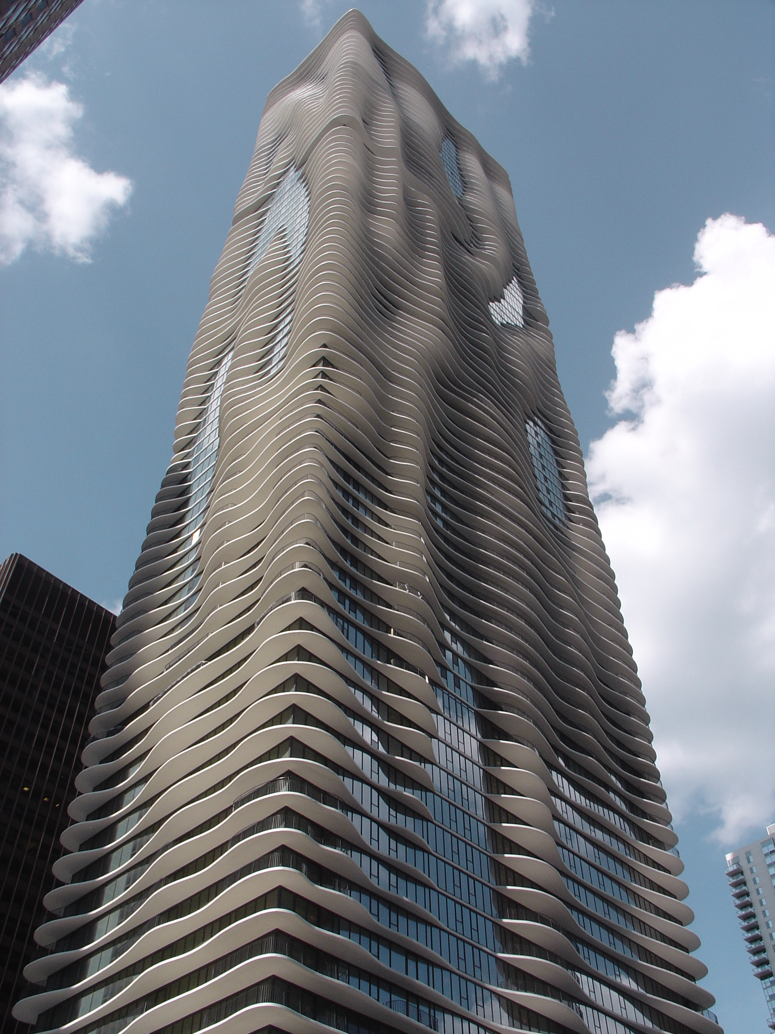 View of Aqua looking from the bottom up.